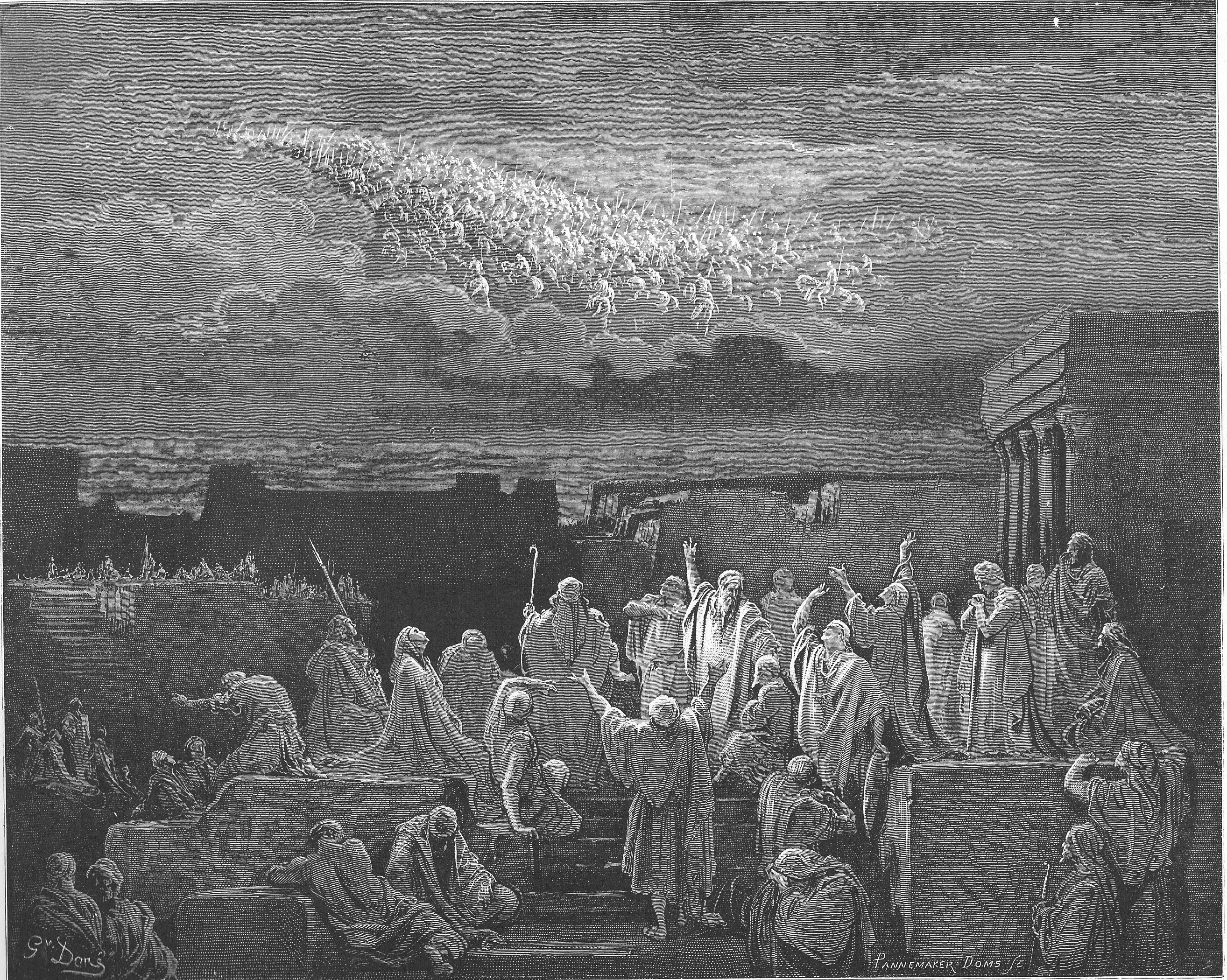 The Army Appears in the Heavens (2 Macc. 5:1-4)